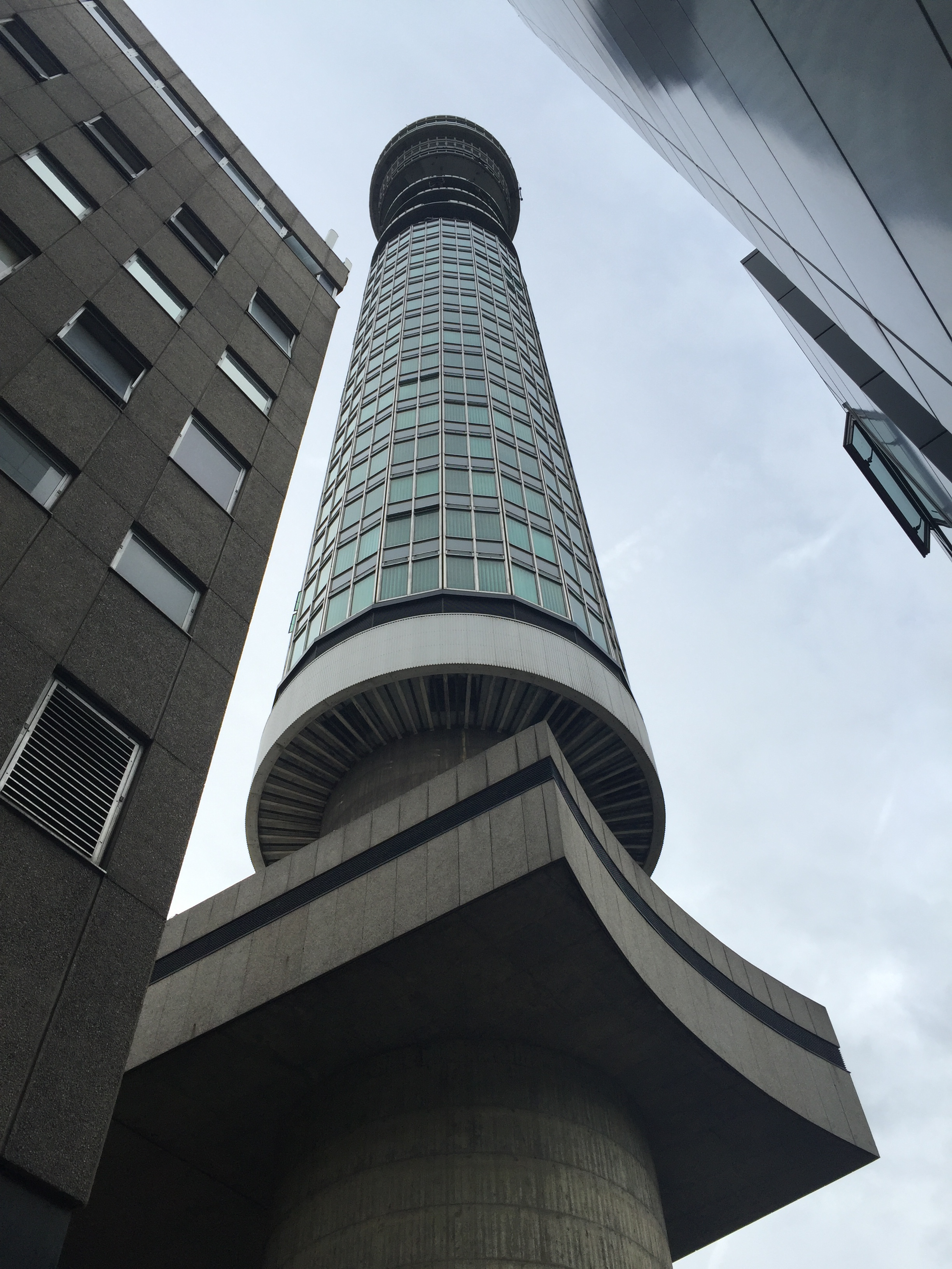 A photo taken from directly beside the BT Tower in London.